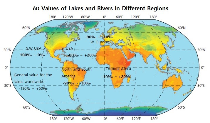 Modified by inserting the data values from on the map from Annu. Rev. Earth Planet. Sci. 2010.38: 161-187